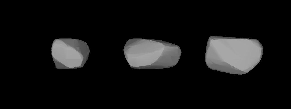 A three-dimensional model of 2991 Bilbo that was computed using light curve inversion techniques.